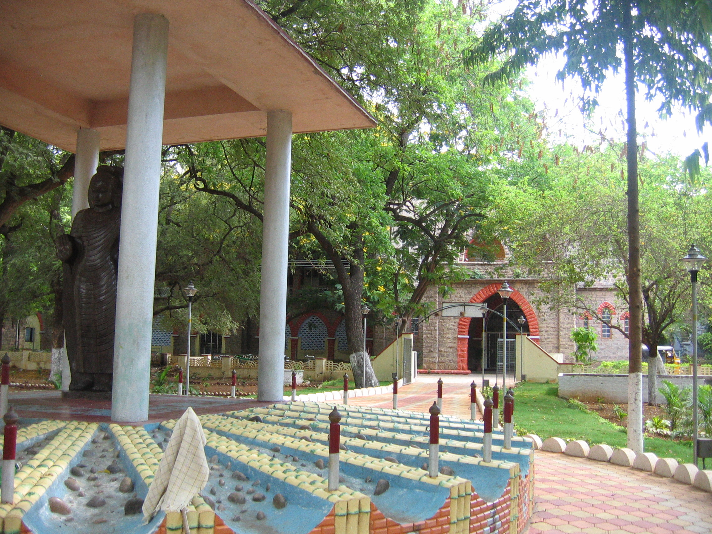 A Government executive location, the Collectorate Complex, in the city of Guntur, India.